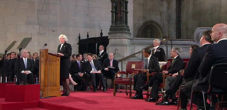 The Lord Speaker, Baroness Hayman gives a speech of thanks to U.S. President Barack Obama after his address to Parliament on 25 May 2011.